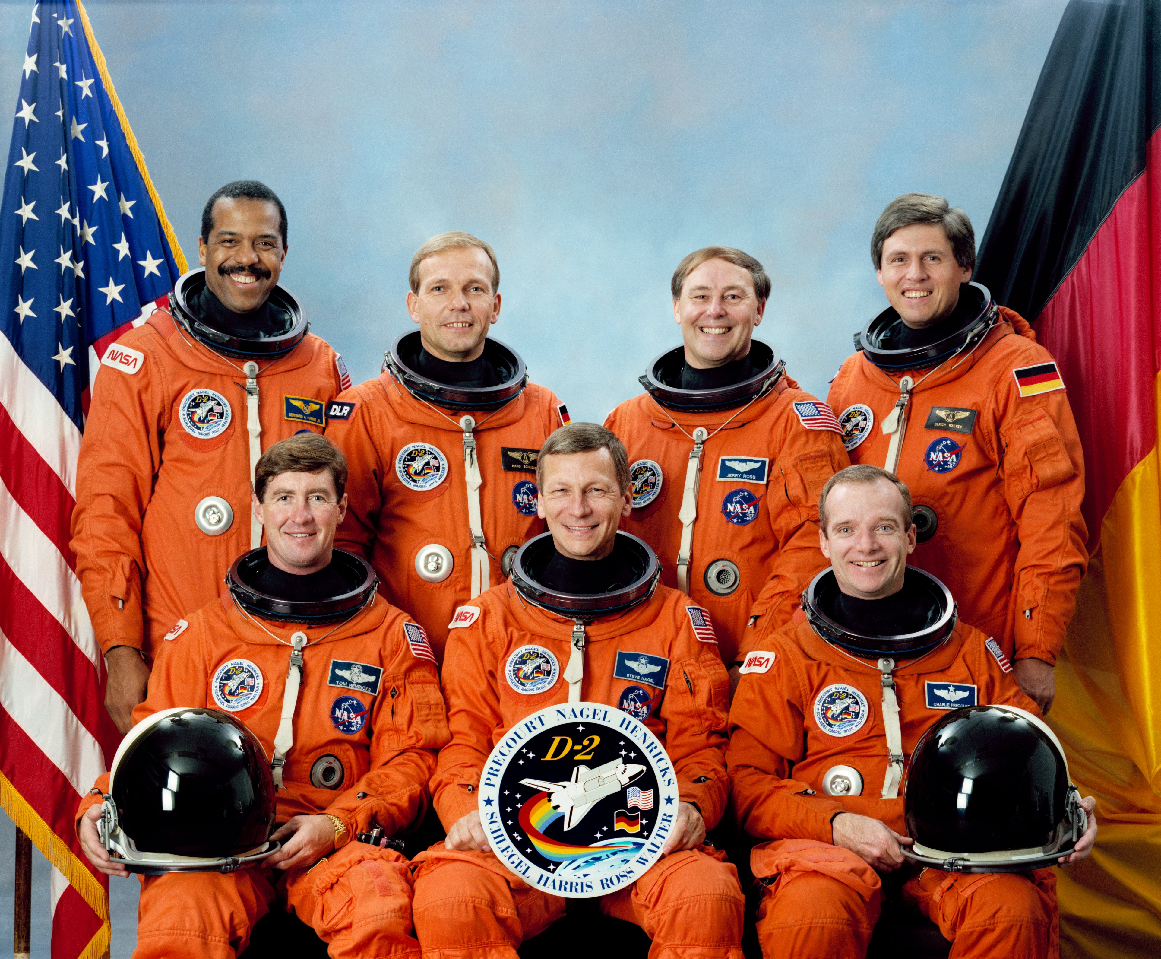 The seven astronauts included in the STS-55 crew portrait are: (front left to right) Terence (Tom) Henricks, pilot; Steven R. Nagel, commander; and Charles J. Precourt, mission specialist. On the back row, from left to right, are Bernard A. Harris, mission specialist; Hans Schlegel, payload specialist; Jerry L. Ross, mission specialist; and Ulrich Walter, payload specialist. The crew launched aboard the Space Shuttle Columbia on April 26, 1993 at 10:50:00 am (EDT). The major payload was the German Dedicated Spacelab, D2.